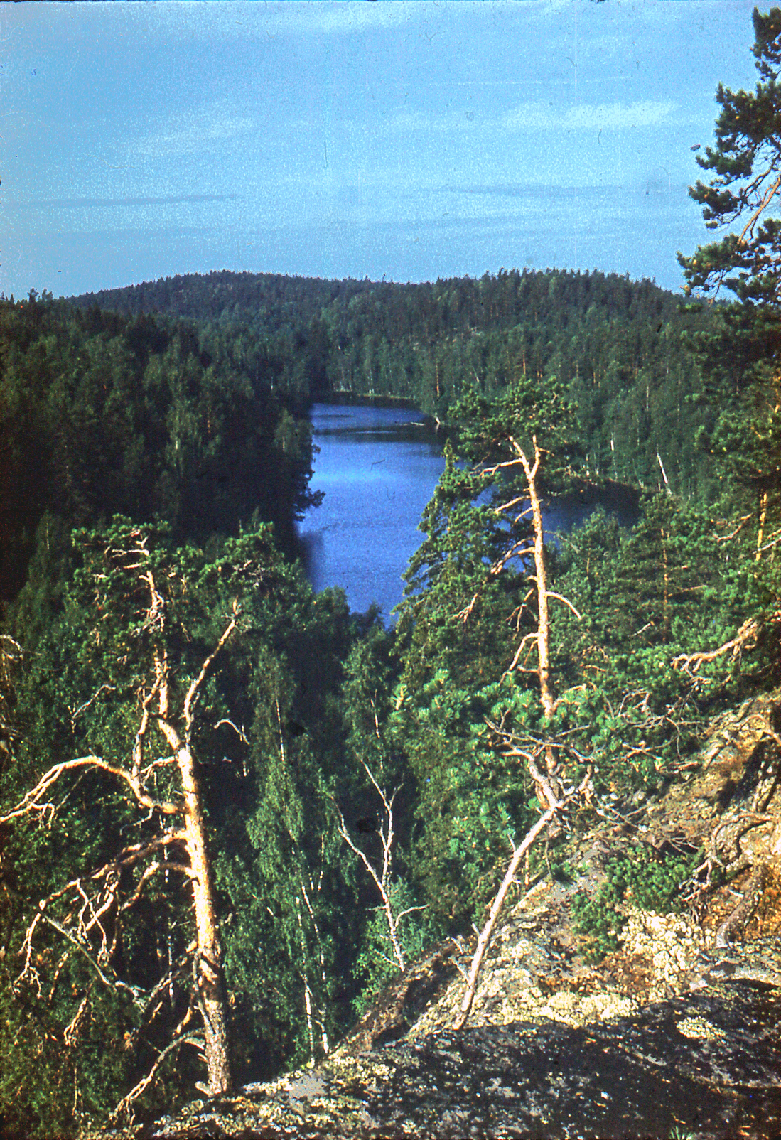 Putsaari island in Ladoga sea, Russia